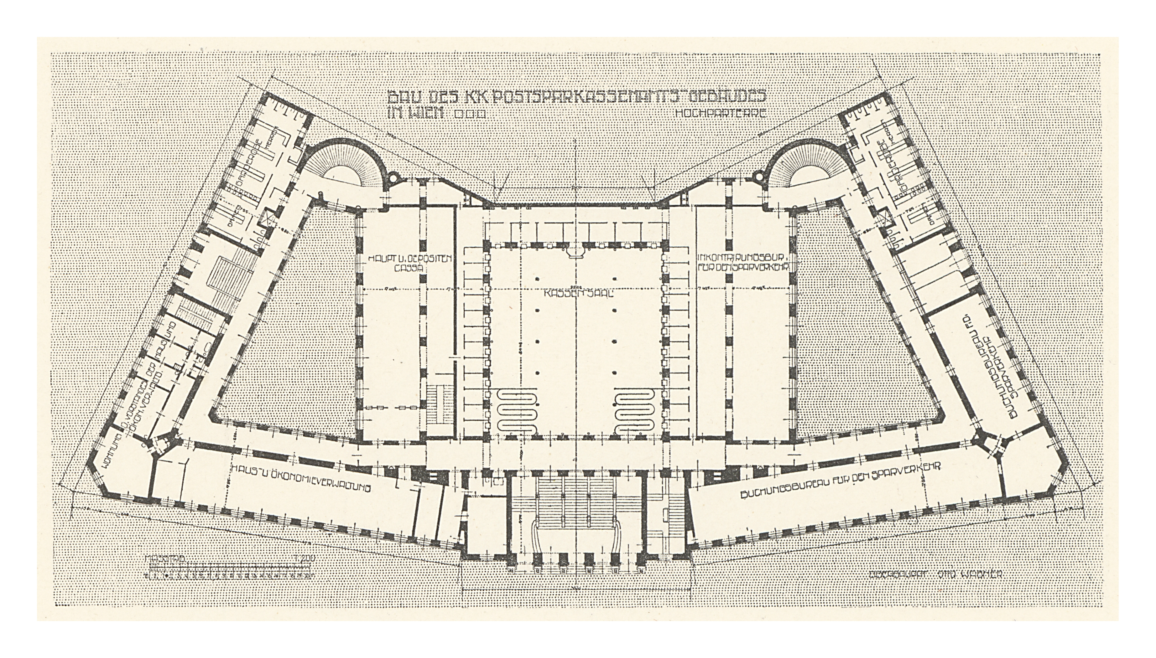 Die Oesterreichische Postsparkasse in Wien I, Georg-Koch-Platz Bd. III 5., 6. und 7.. Heft Scanprojekt Bundesdenkmalamt Österreich This scan or this PDF-file was created within the Austrian Wikipedia-project Denkmalpflege Österreich (German only) supported by Wikimedia Germany and Wikimedia Austria as part of the Wikipedia community-project to collect public domain documents from the library of the Heritage Monuments Board of Austria. This document describes or depicts an object which is located in Austria today. Send requests for uncompressed scans to Hubertl. This work is in the public domain in its country of origin and other countries and areas where the copyright term is the author's life plus 100 years or fewer. You must also include a United States public domain tag to indicate why this work is in the public domain in the United States. This file has been identified as being free of known restrictions under copyright law, including all related and neighboring rights.